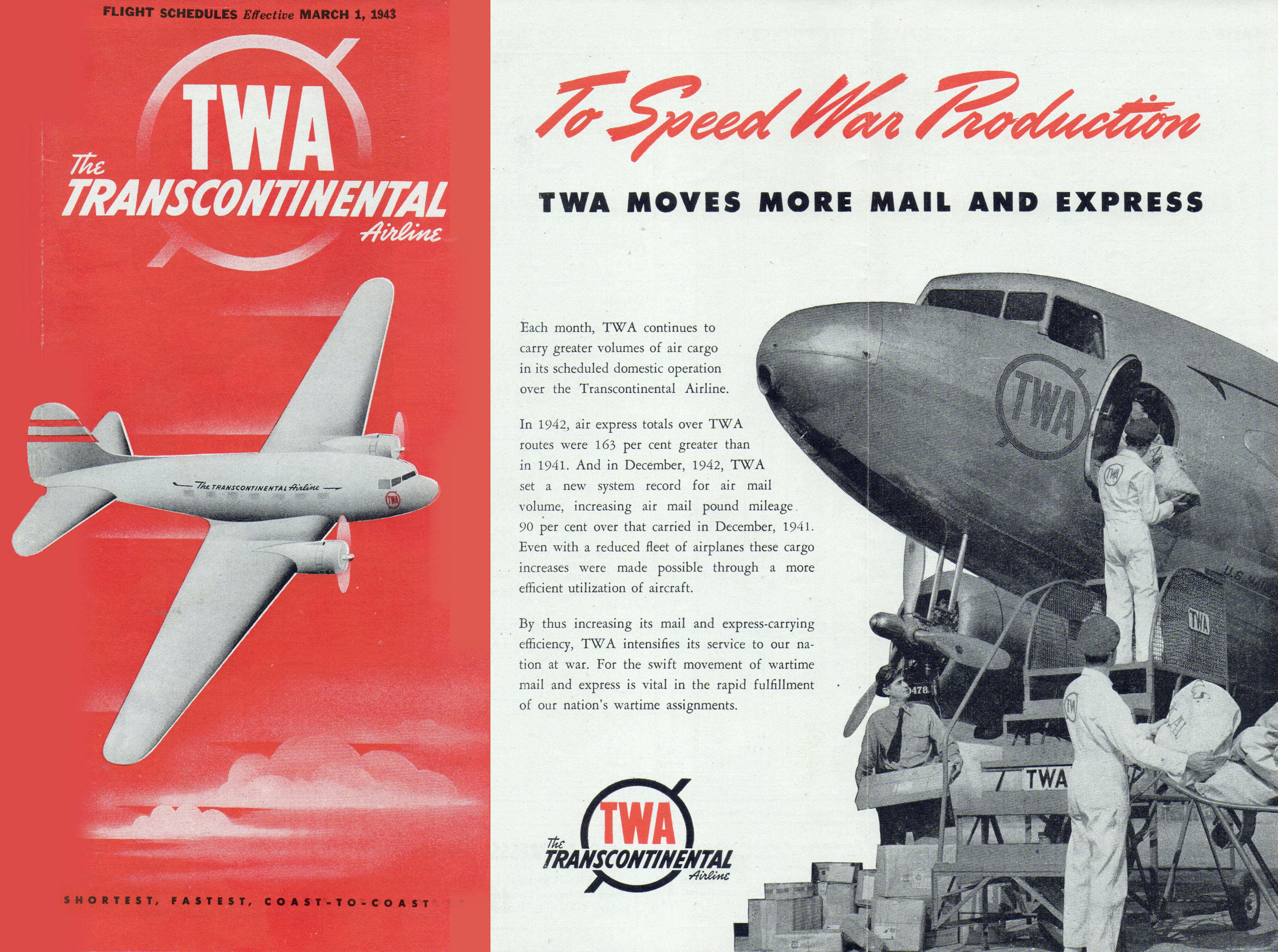 TWA Air Mail and Express during WWII (from TWA route schedule)